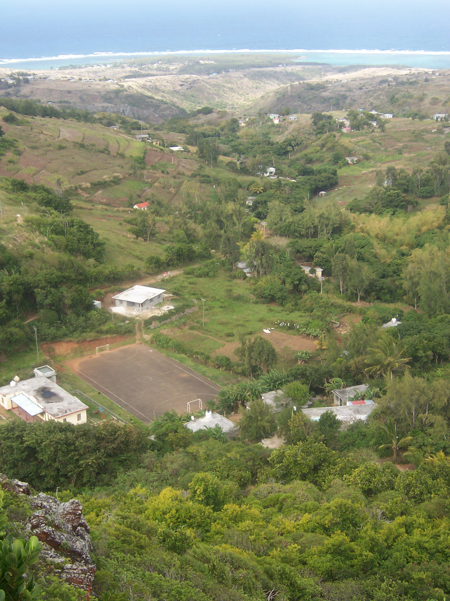 Eastern slopes of Rodrigues island seen from the summit of Grande Montagne.